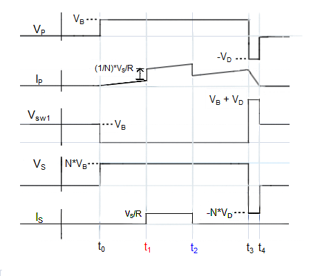 Waveforms associated with File:Forward converter 1.png